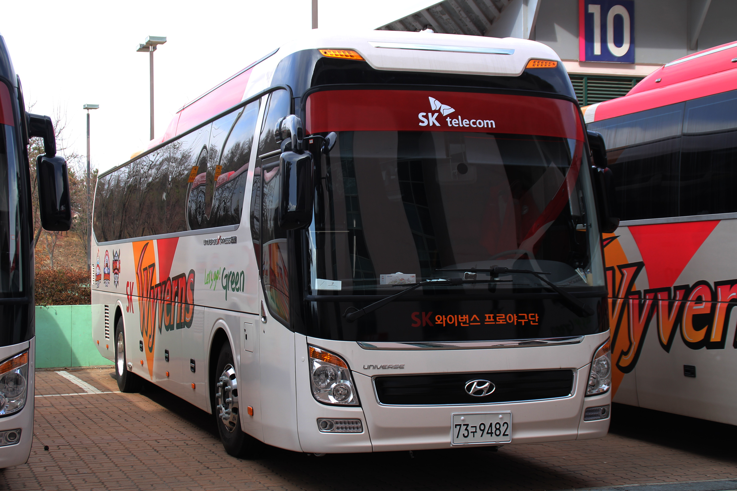 New Premium Universe Noble 2012 which used by SK Wyverns